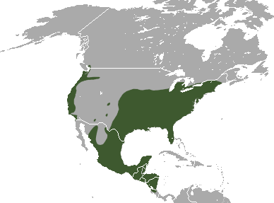 Virginia Opossum (Didelphis virginiana) range, with colonial borders